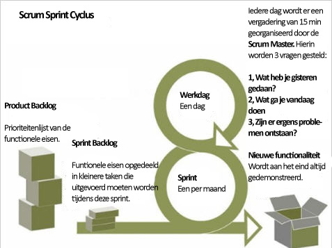 SCRUM